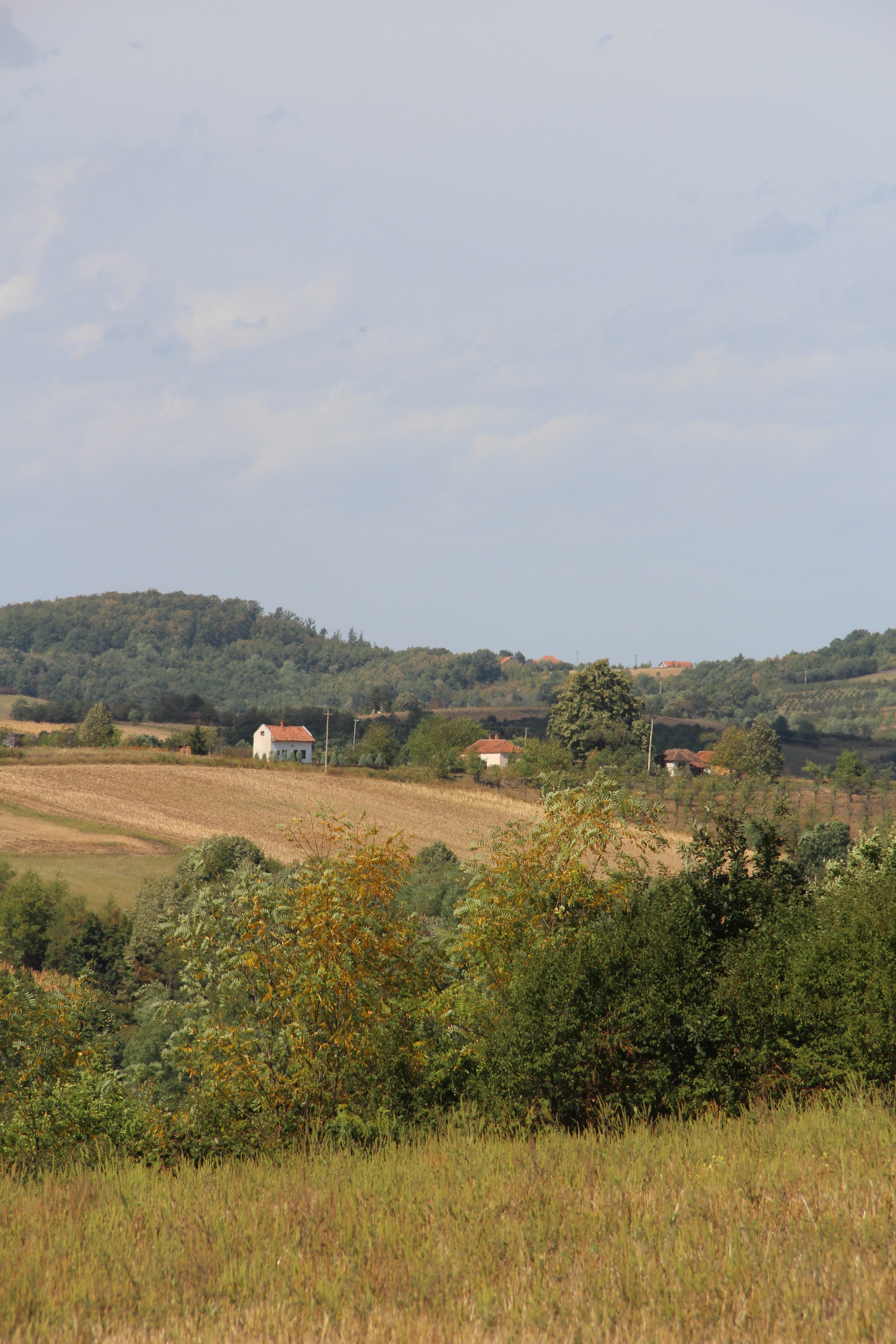 Blizonje village - Municipality of Valjevo - Western Serbia - Panorama 8